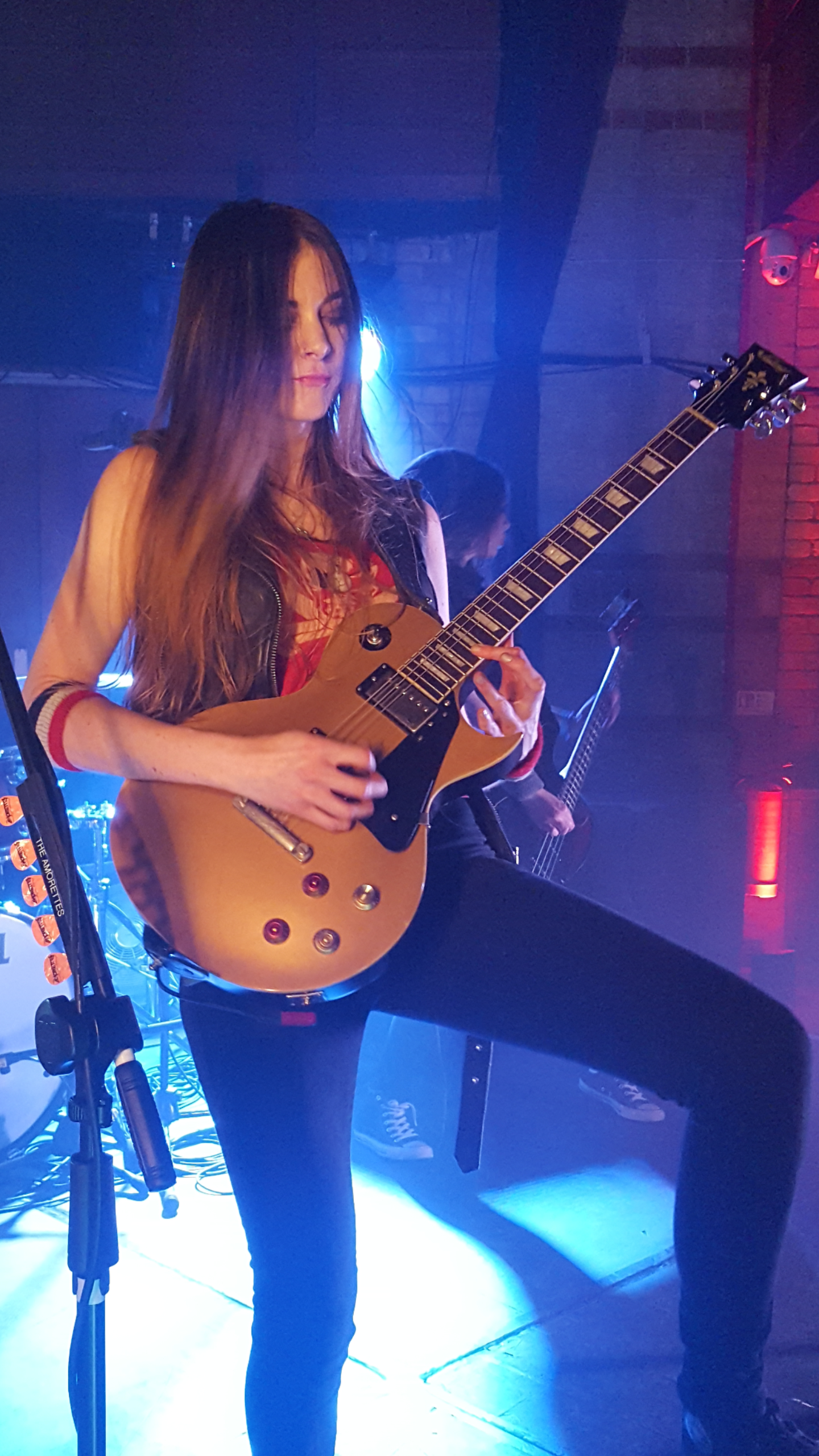 Gill Montgomery of The Amorettes performing in Cambridge, 23 September 2017